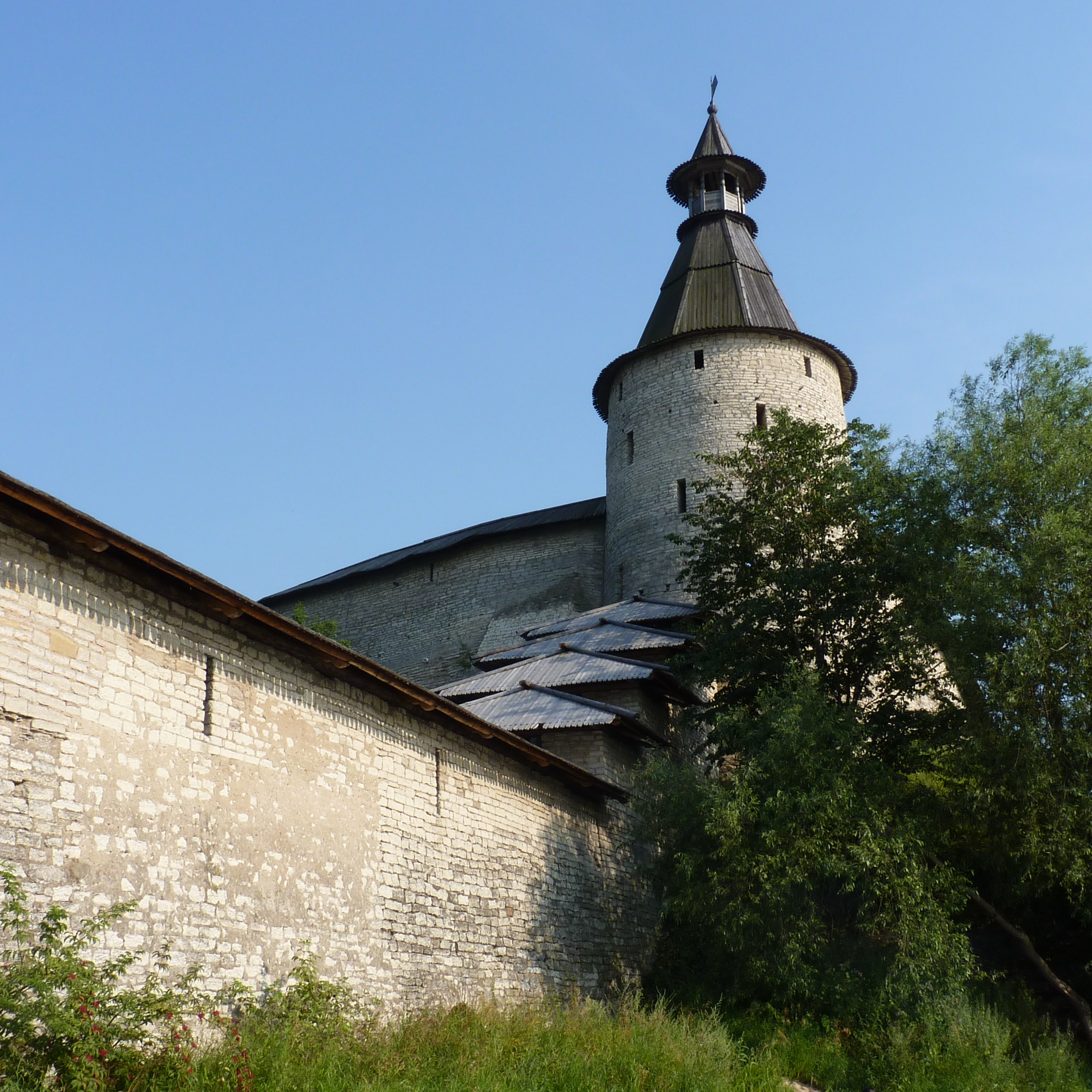 Kremlin of Pskov